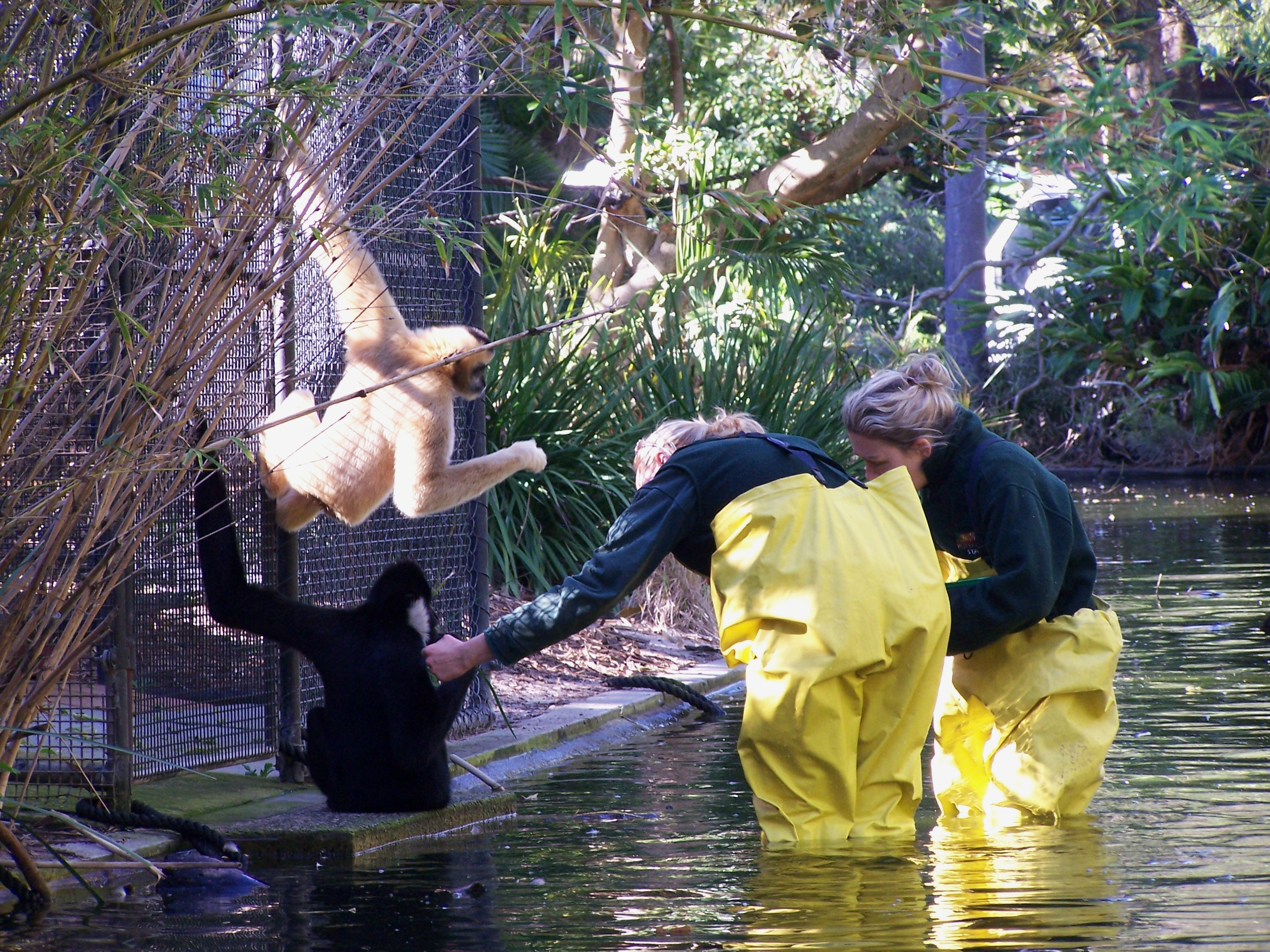 Staff at Perth Zoo tending to the animals